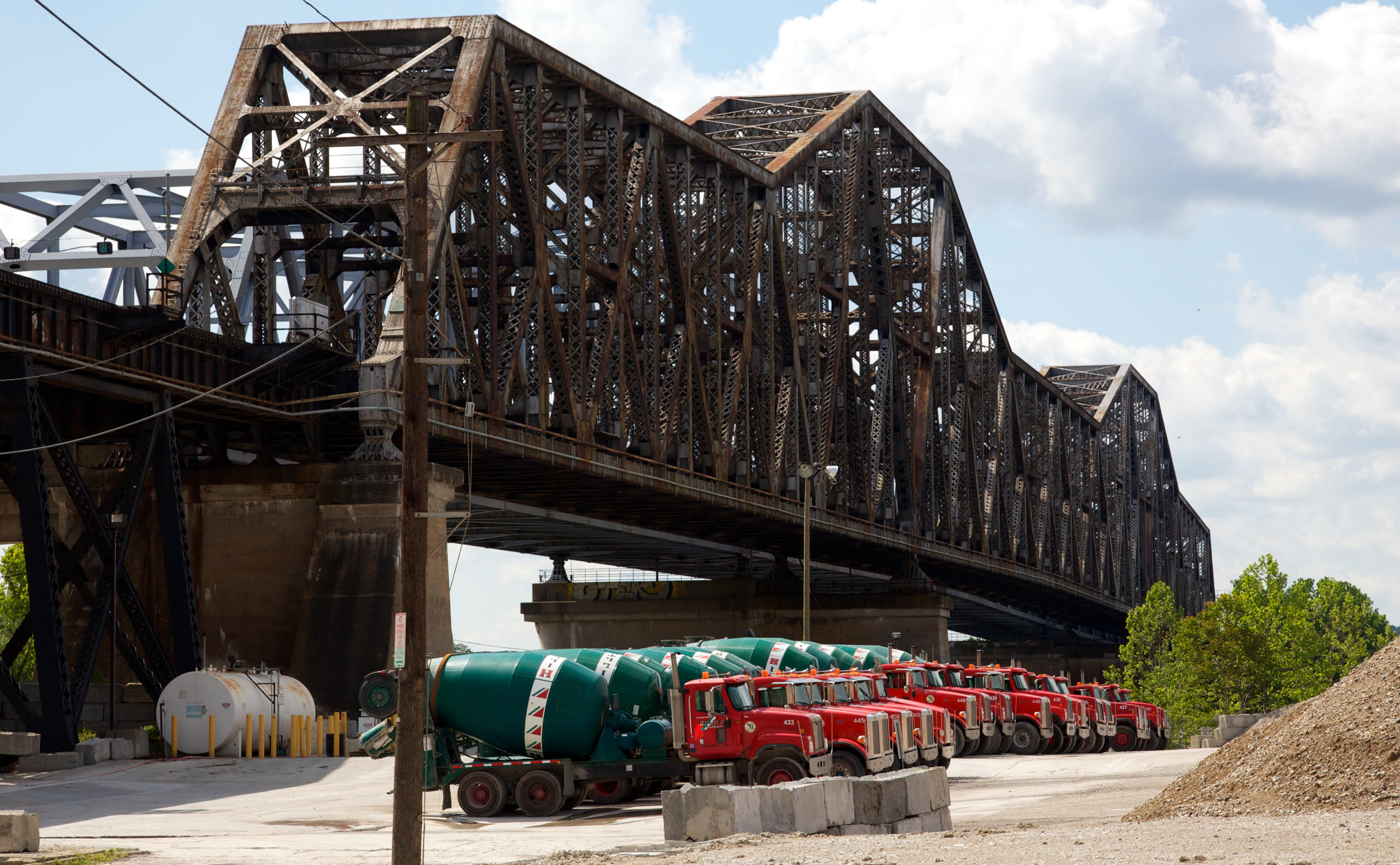 Road bridge, railroad bridge (CSX), and concrete trucks - next to the Ohio River in Cincinnati